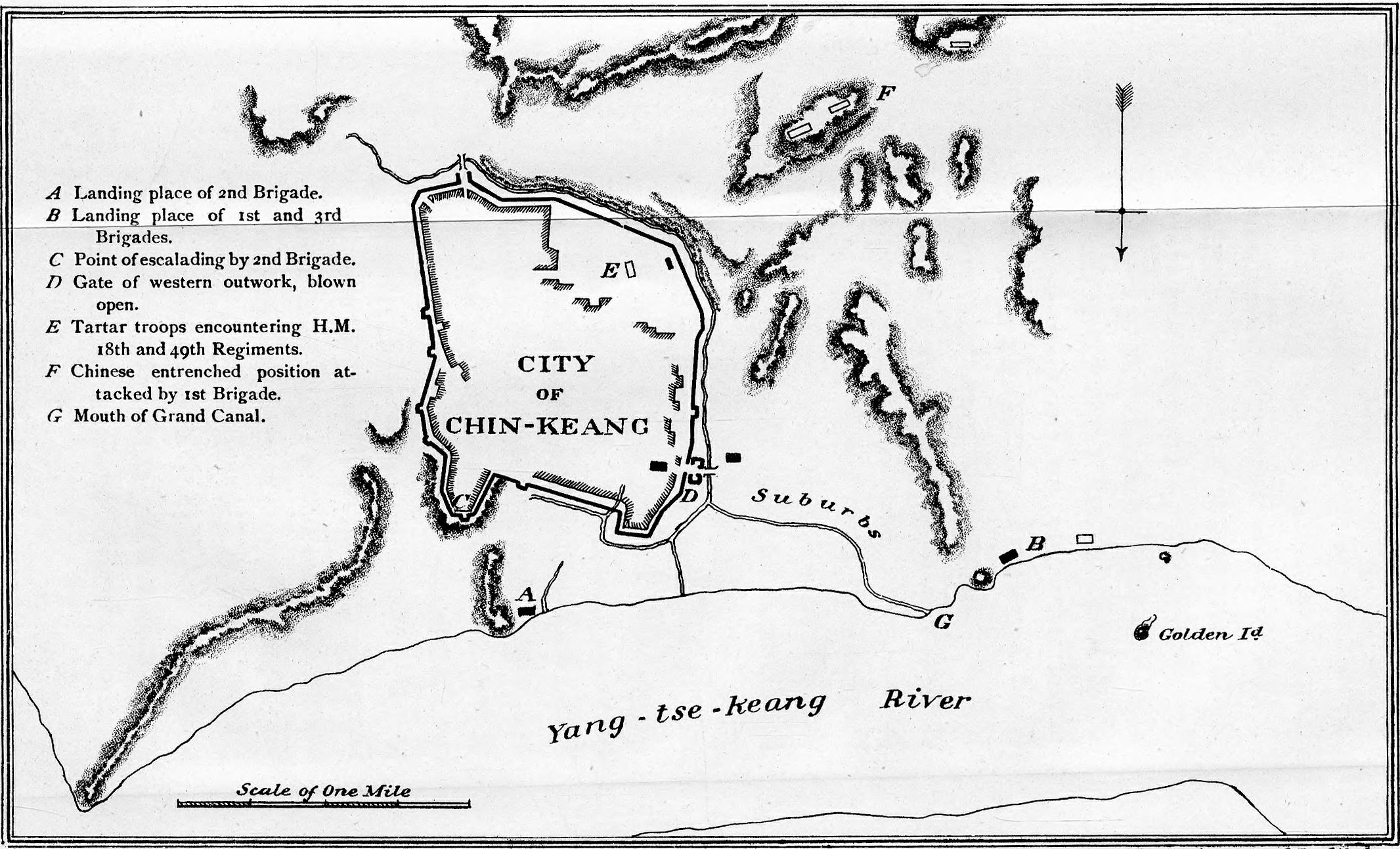 Map of the capture of Chinkeangfoo